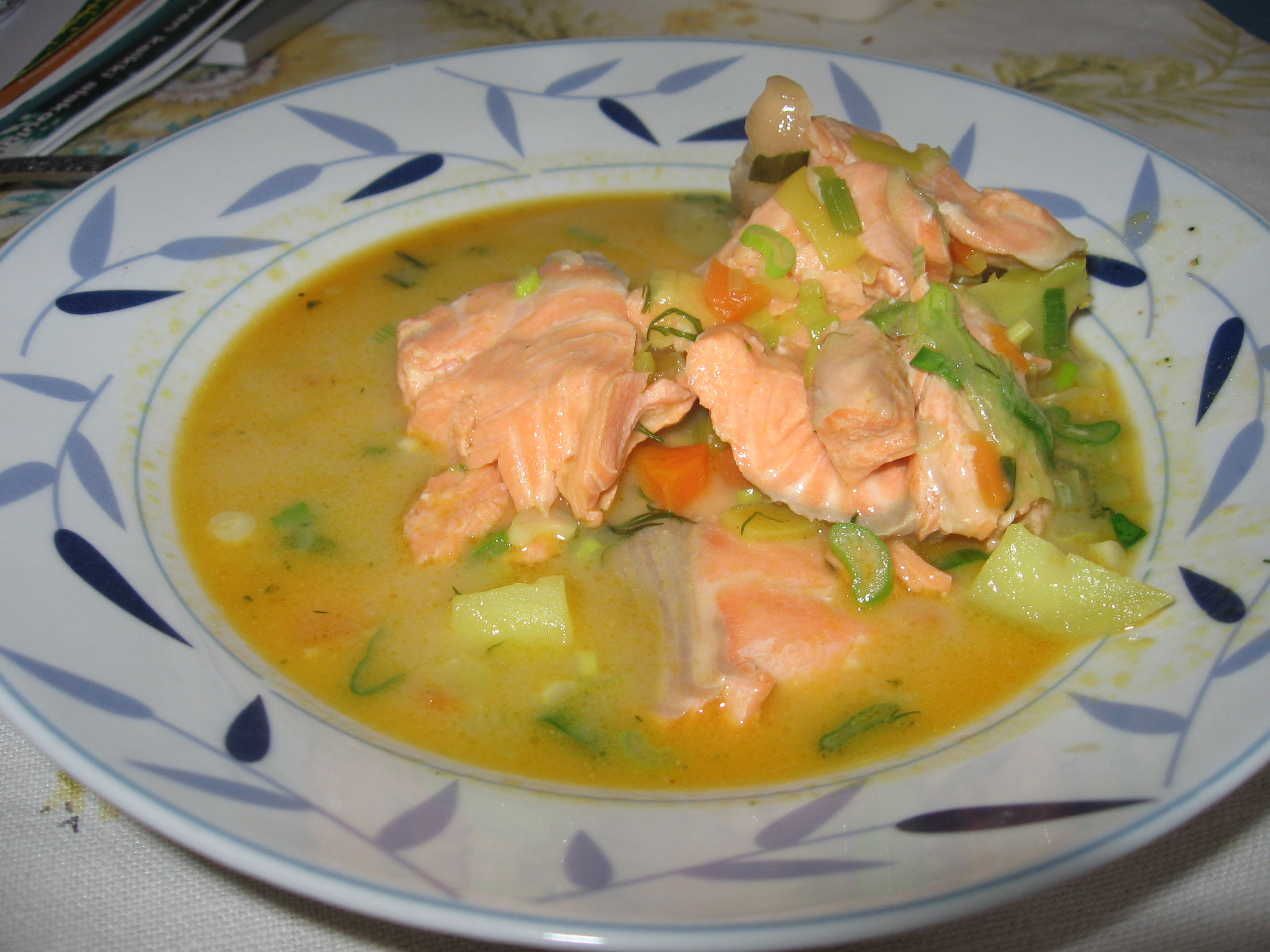 Salmon soup with cream.